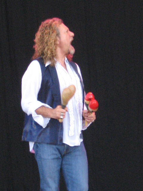 Robert Plant playing maracas at the 2008 Bonnaroo Music Festival